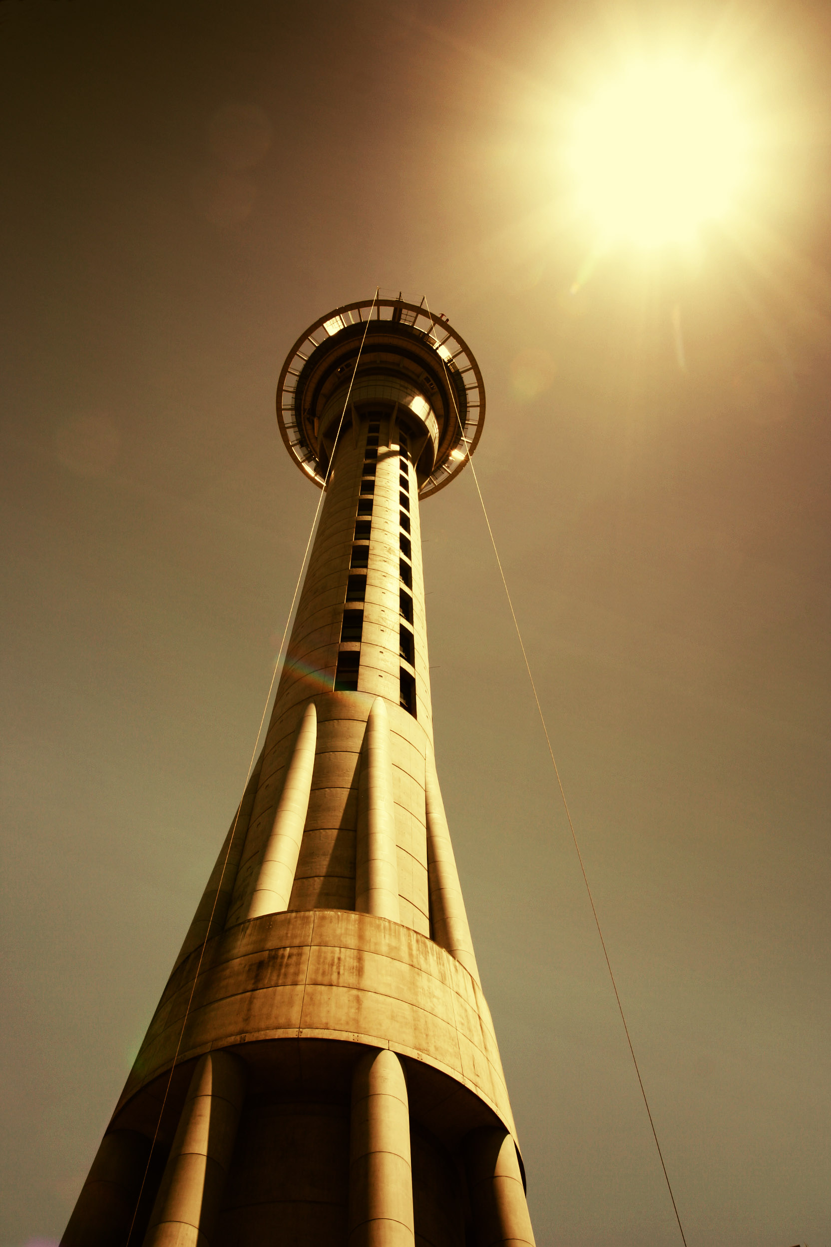 Auckland Sky Tower, on a hot summer's day.